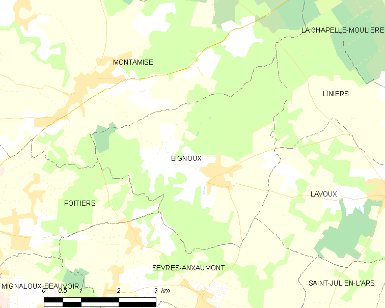 Map of French municipality Bignoux